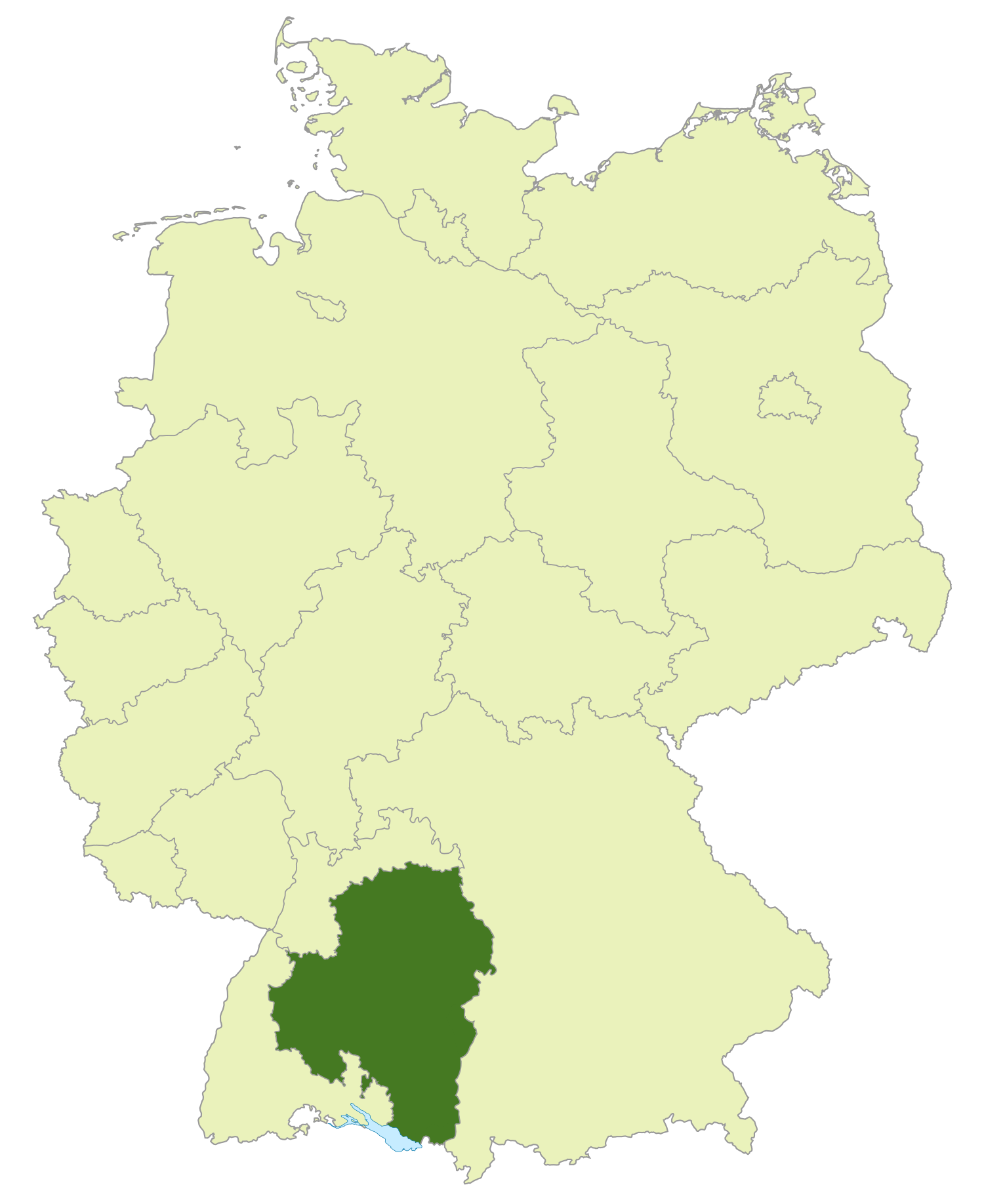 Map of regional soccer association Württemberg, Germany